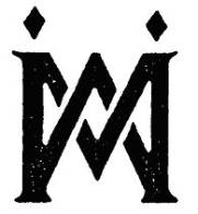 Emblem of Sulpicians Society, from a print of end 19th cent.